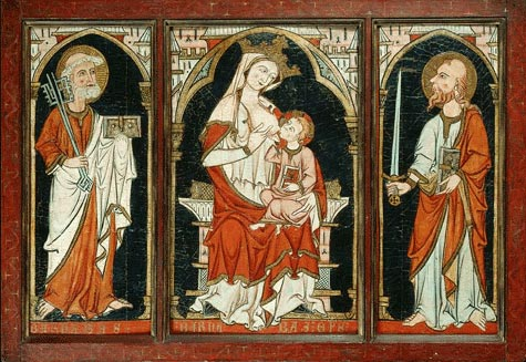 'The Barnabas Altarpiece', southwestern French or northern Spanish